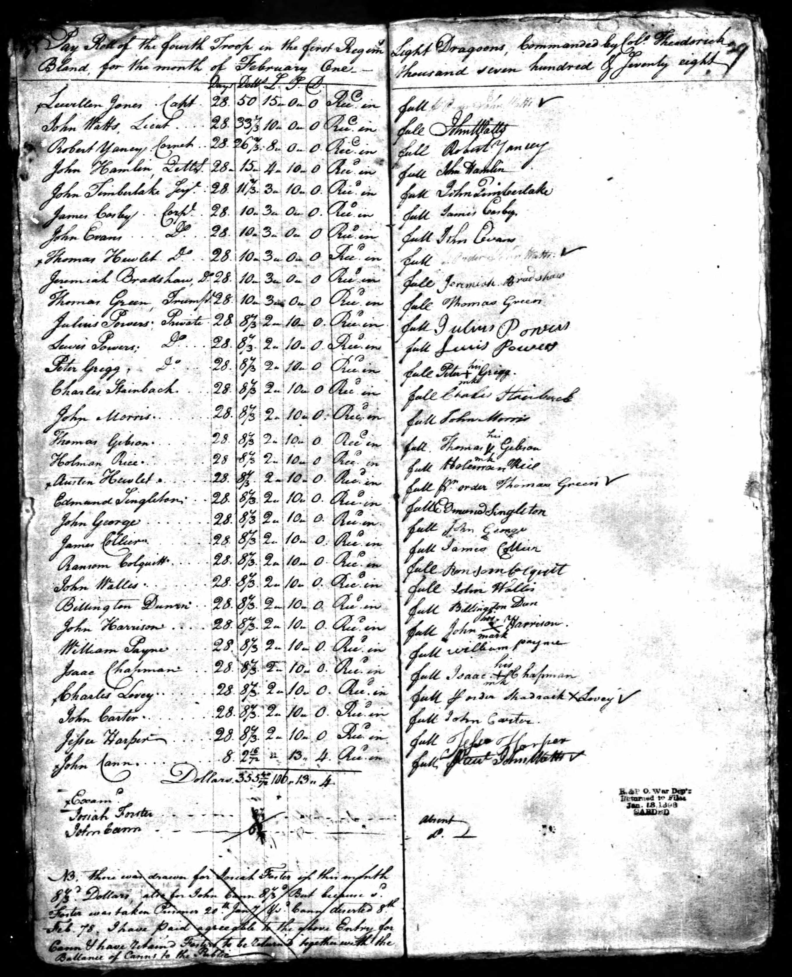 Roster of the unit. See the heading